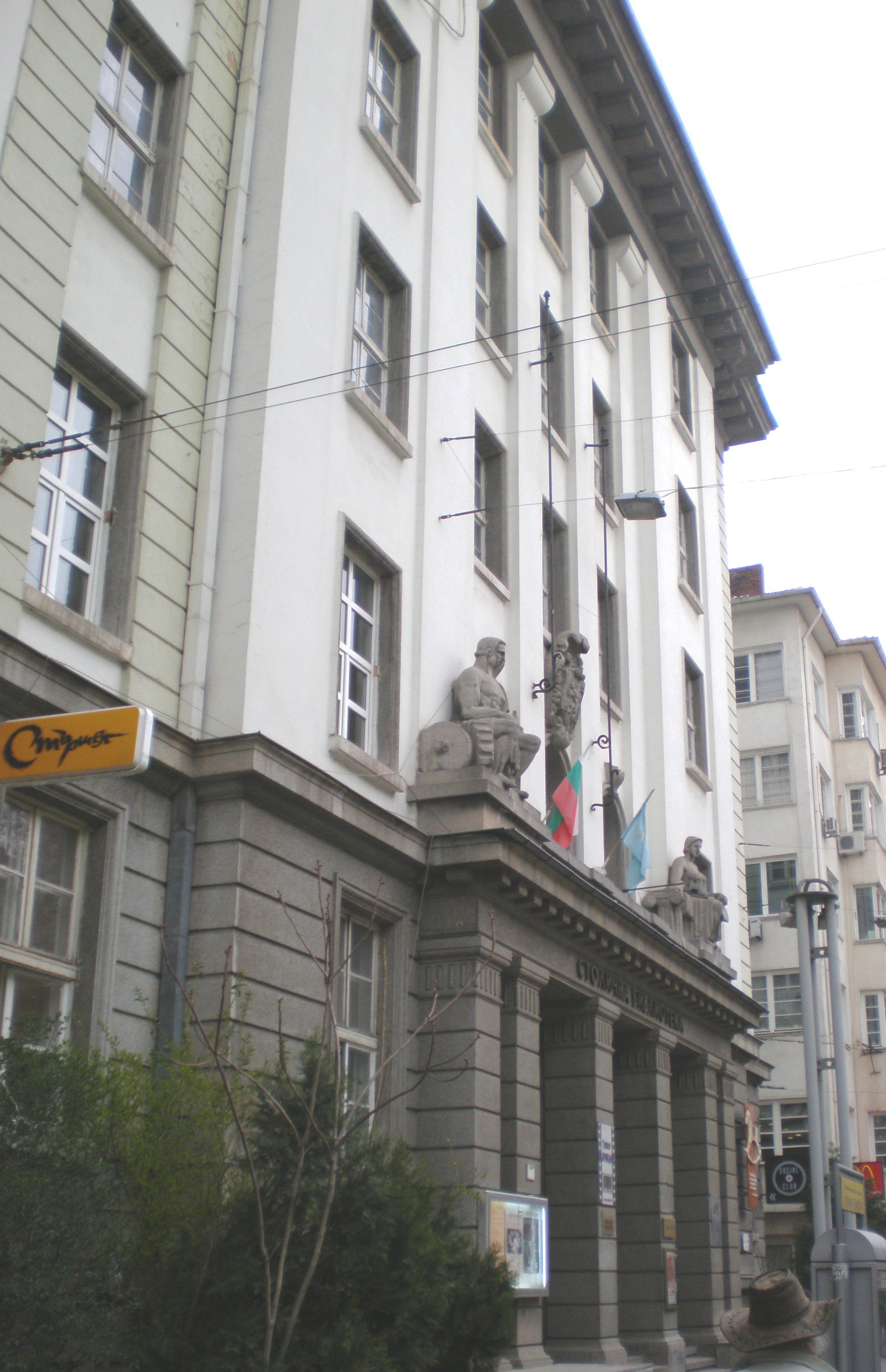 Central Library of Sofia, Bulgaria